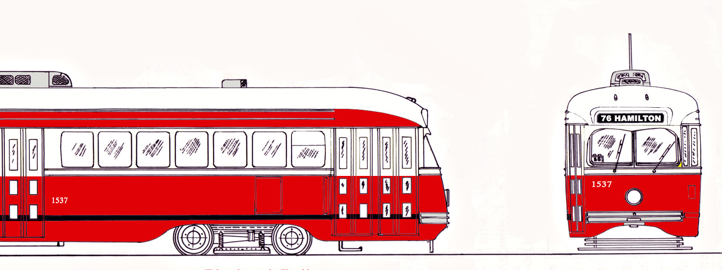 «Pittsburgh Railways : Color Scheme pre ‘Suburban PCC’s’» (original caption)